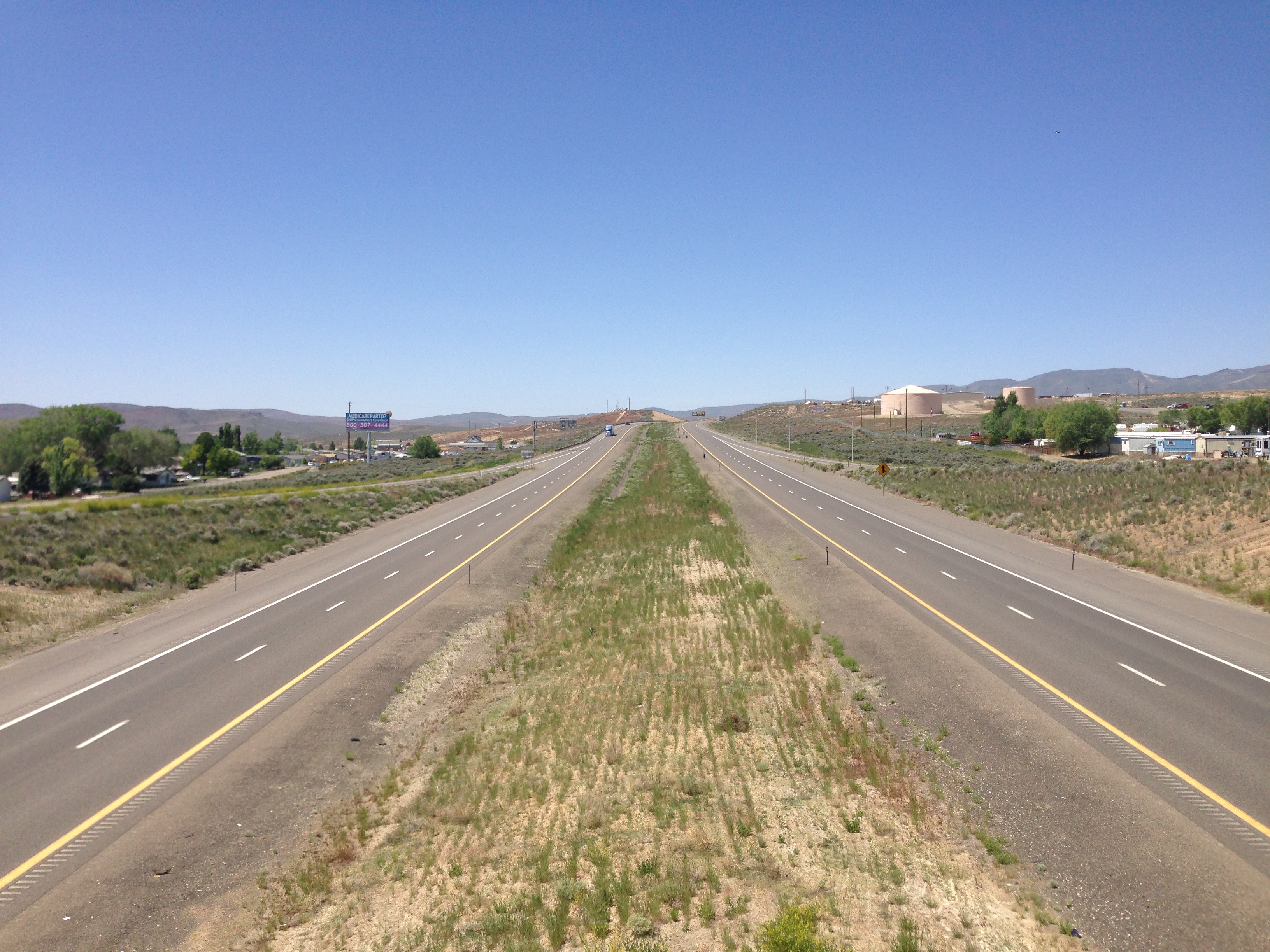 View west along Interstate 80 from the Exit 280 overpass